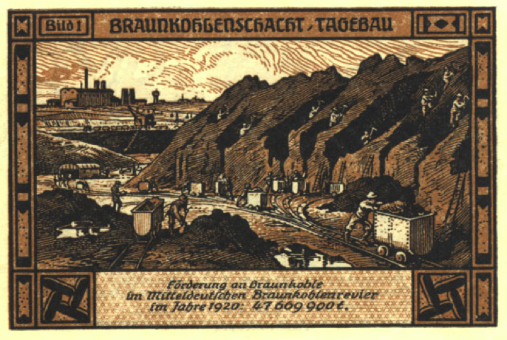 50 Pfennig emergency bill of 1921, City of Bitterfeld, Germany, reverse side, No 1 out of a series of 6, theme: open brown coal pit